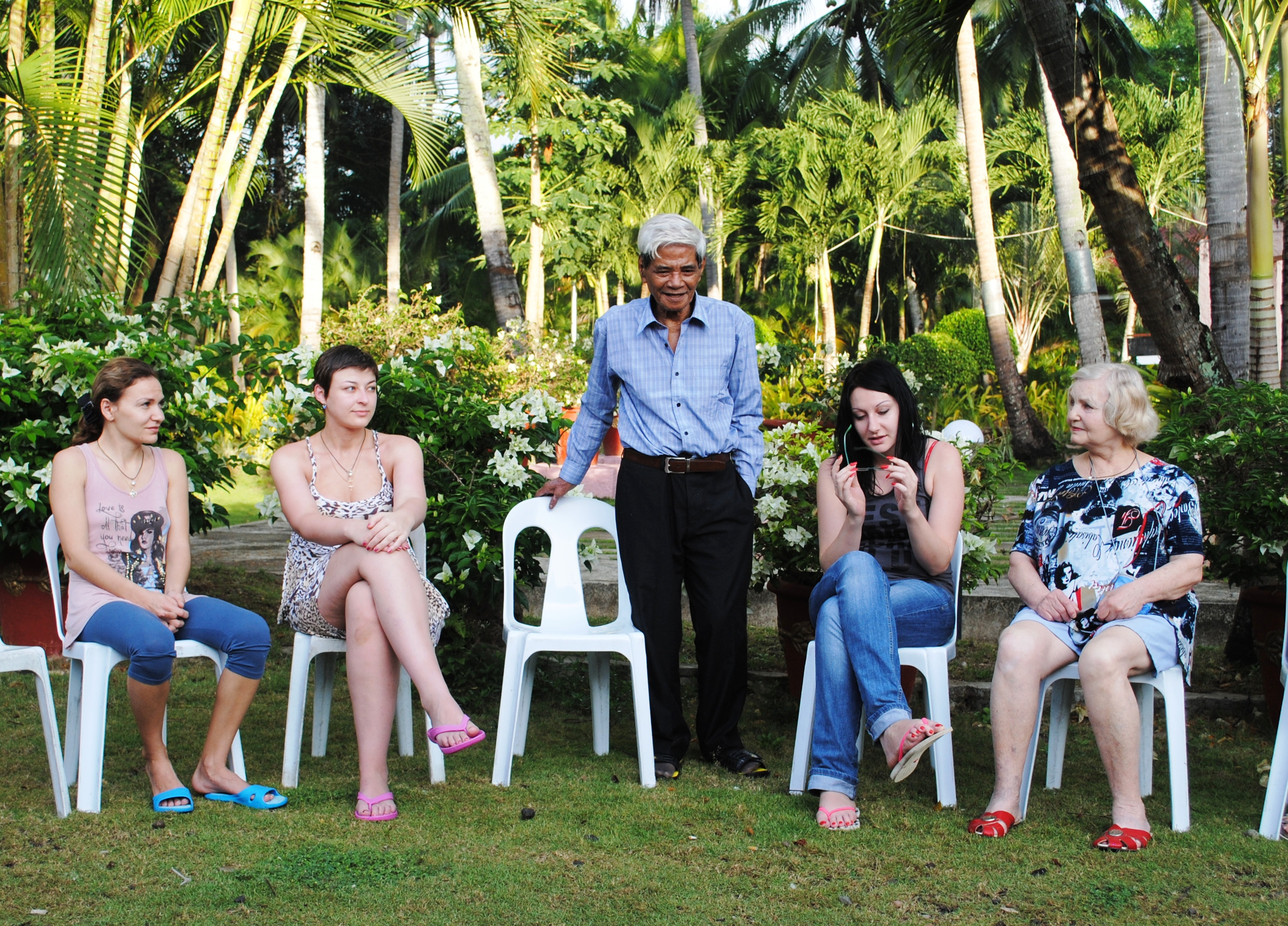 Psychic surgery